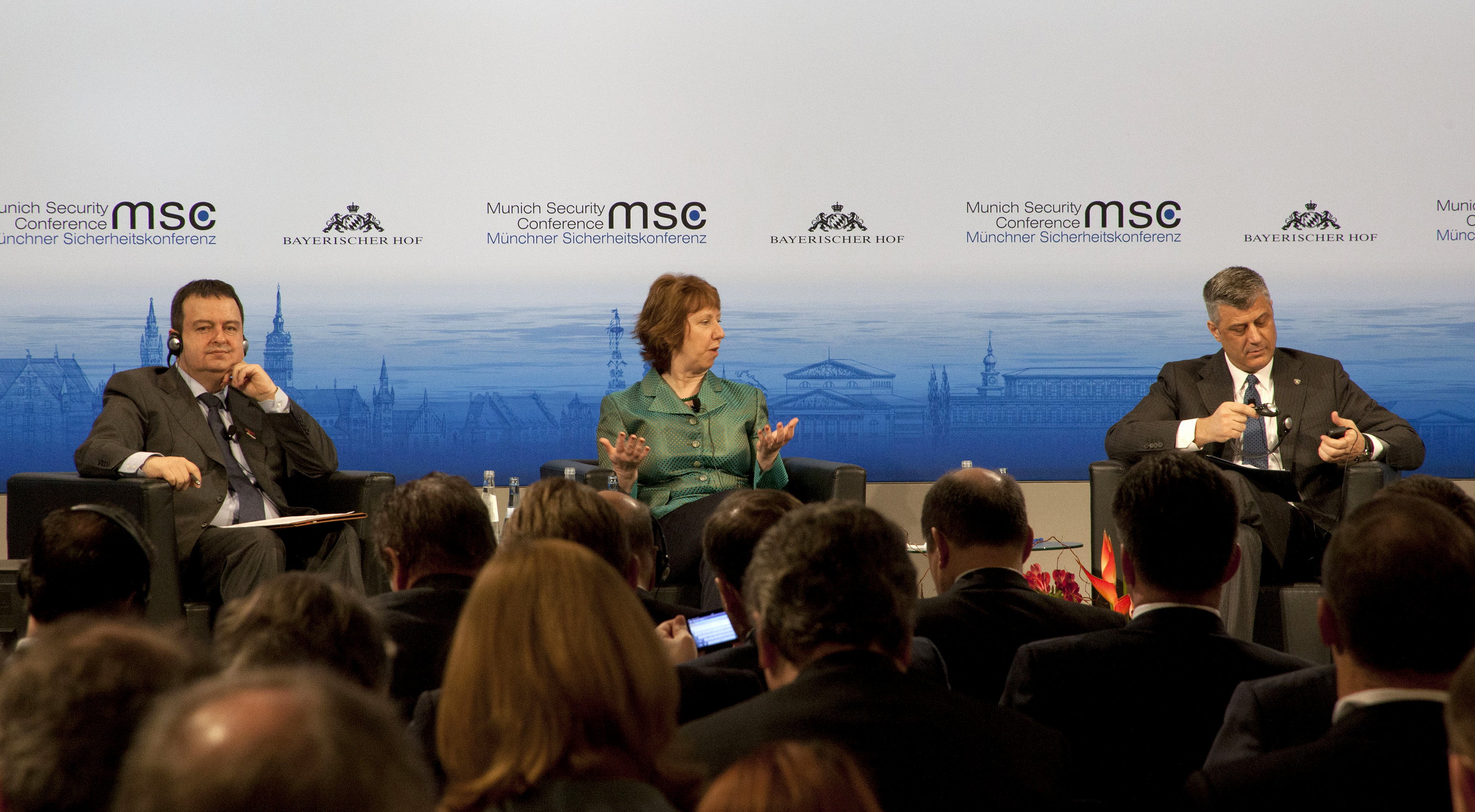 50th Munich Security Conference 2014: Ivica Dačić, Hashim Thaçi and Catherine Ashton: Ivica Dačić (Prime Minister, Belgrade), Hashim Thaçi (Prime Minister, Pristina), Catherine Ashton (Vice President of the European Commission; High Representative for Foreign Affairs and Security Policy, EU).